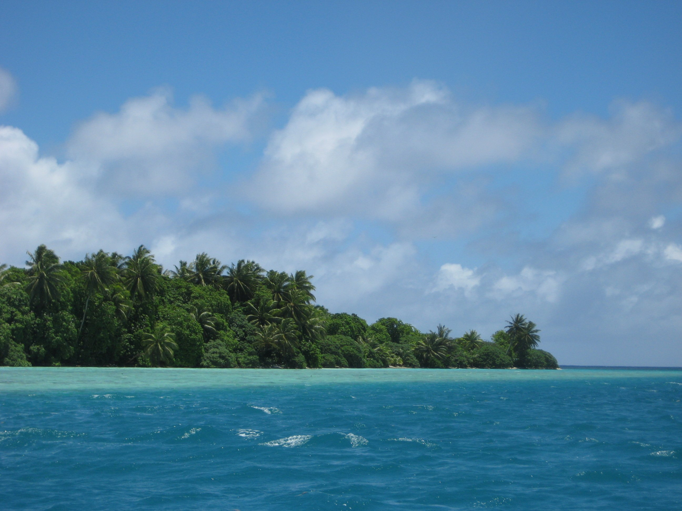 Vegetation including the ubiquitous palm trees of the tropical Pacific cover Palmyra Island and its associated offshore islets. Palmyra Island.